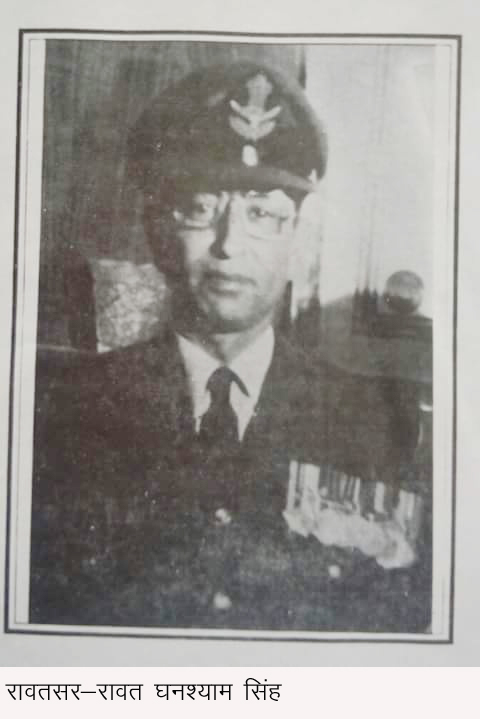 Wing Cdr. retd. Rawat GHANSHYAM SINGH Ji